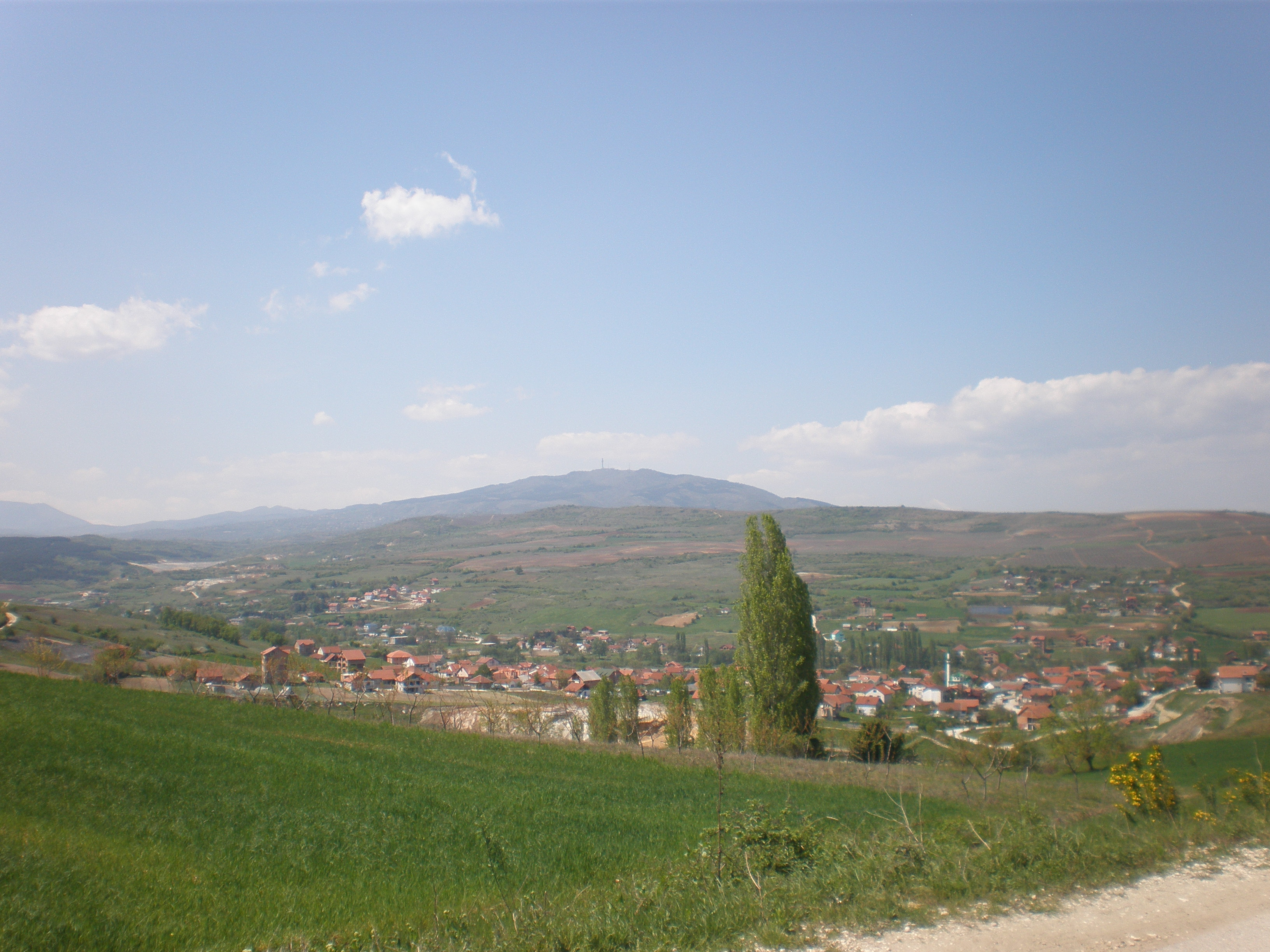 View of the village of Batinci from the monastery Pelenica, Macedonia